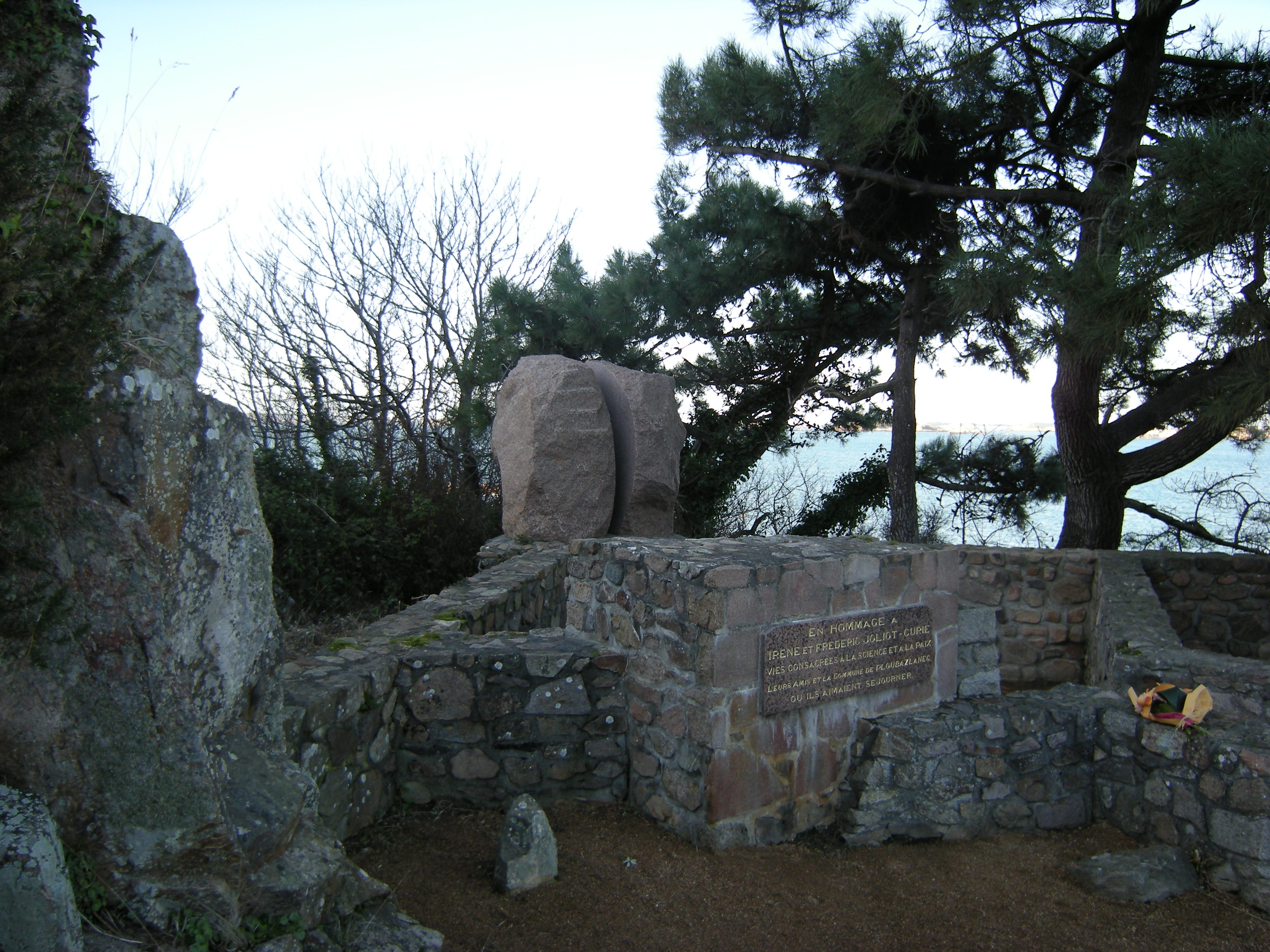 Ploubazlanec, Côtes-d'Armor, France. Granite rose memorial in L'Arcouest, to Irène and Frédéric Joliot-Curie.